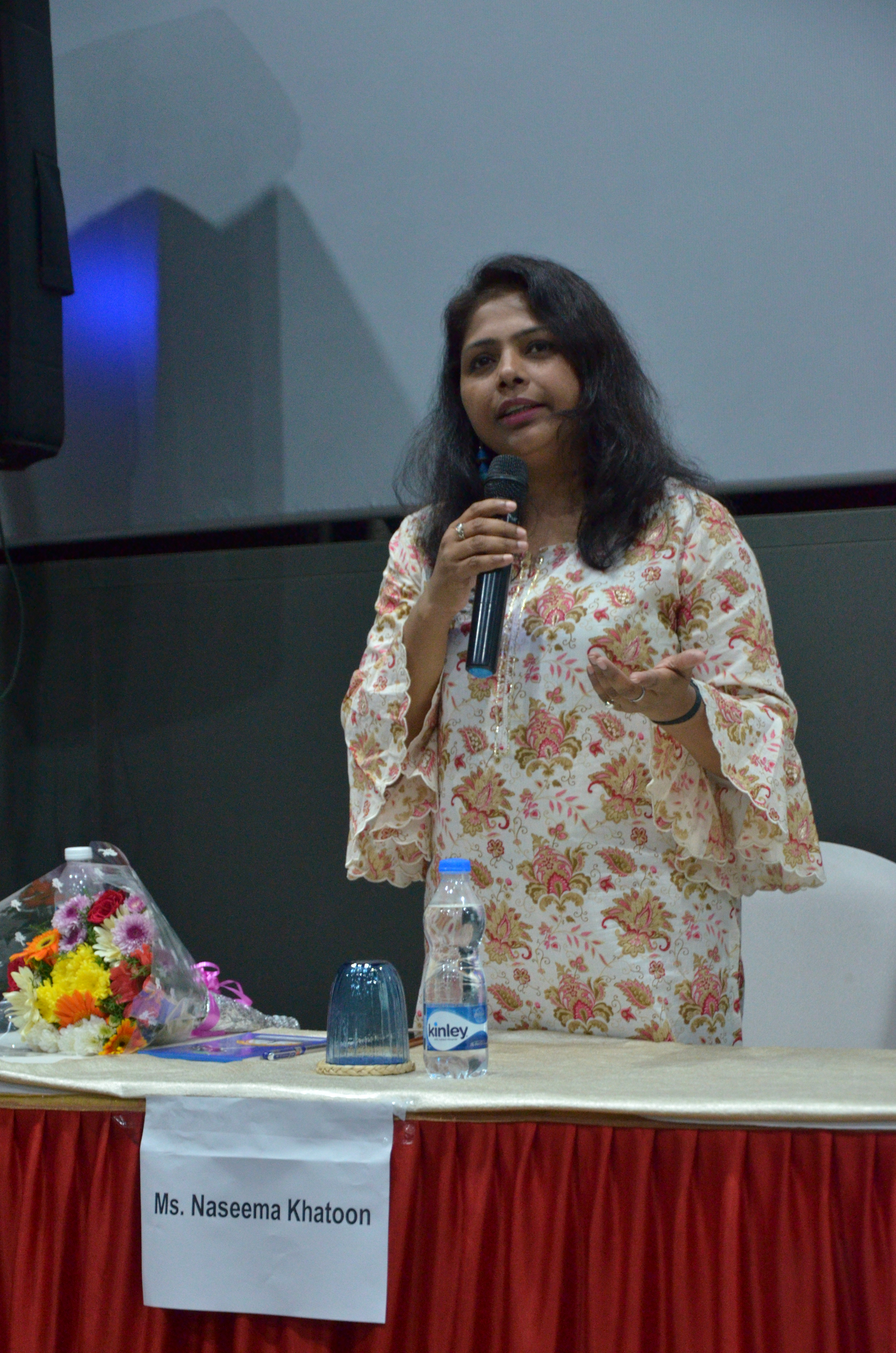 Naseema Khatoon speaking at TEDxGEC: Inquilab in 2019